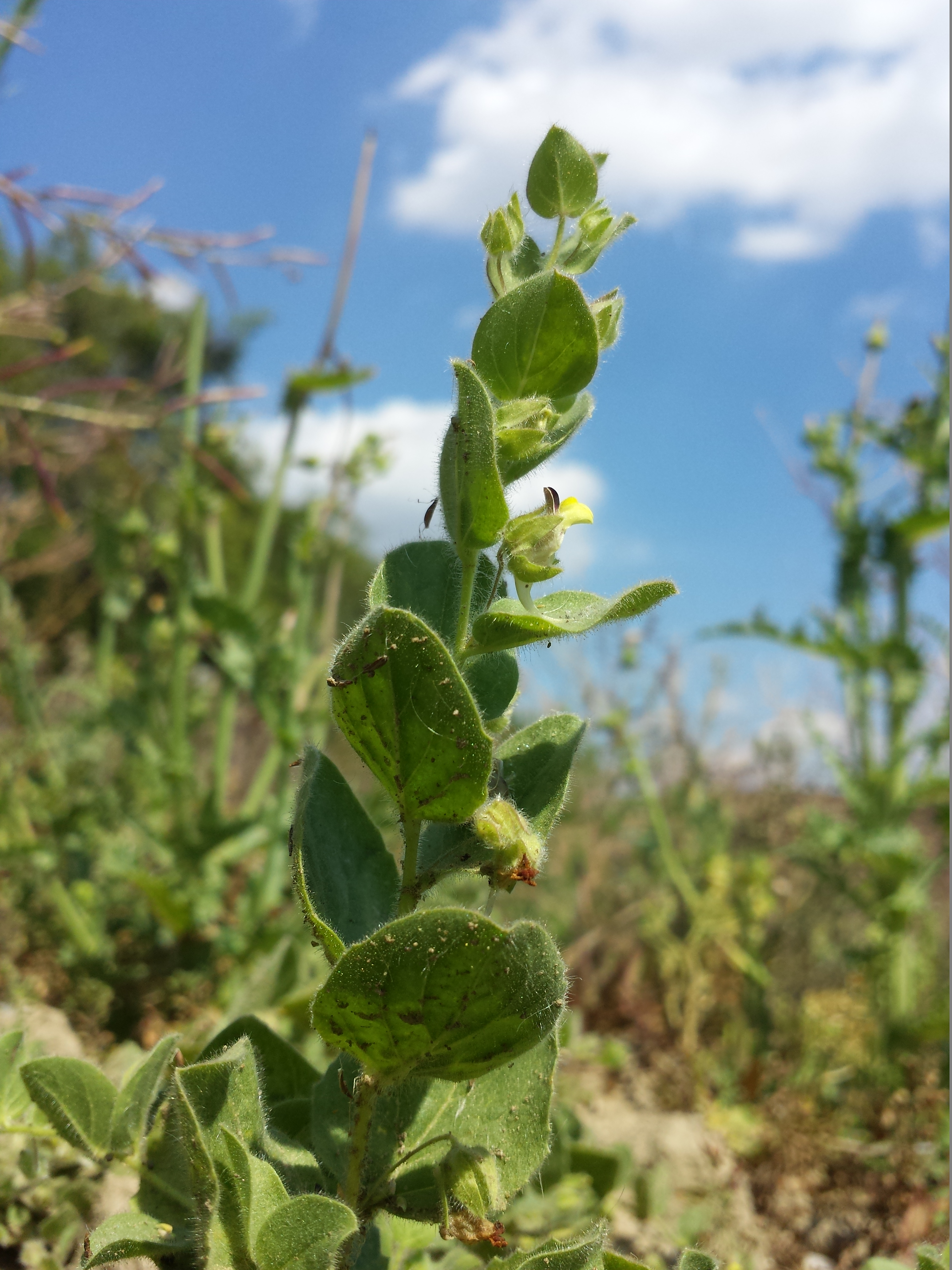 Habitus Taxonym: Kickxia spuria ss Fischer et al. EfÖLS 2008 ISBN 978-3-85474-187-9 Location: next to Frauendorf an der Schmida, district Hollabrunn, Lower Austria - ca. 300 m a.s.l. Habitat: fallow land